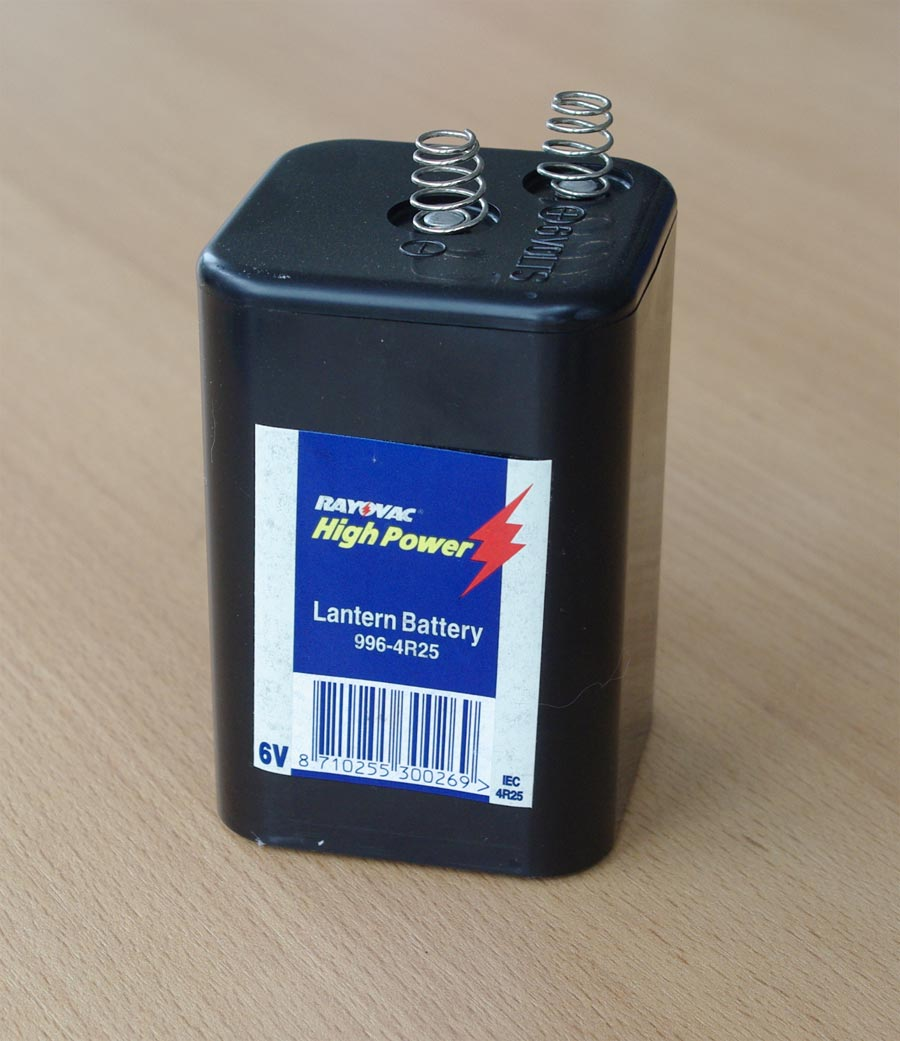 6 volt lantern battery Height: 114 mm (Expression error: Missing operand for round. in). Width: 66 mm (Expression error: Missing operand for round. in). Depth: 66 mm (Expression error: Missing operand for round. in). IEC 4R25